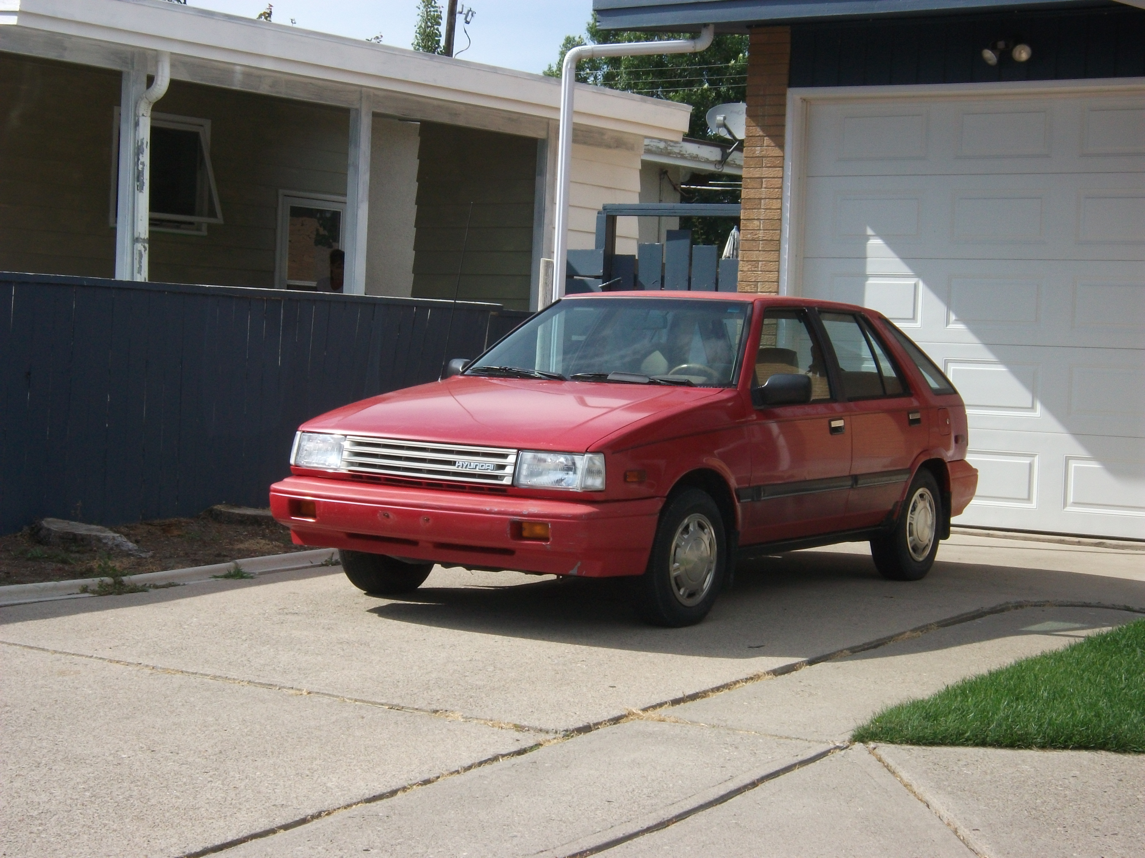 Hyundai Excel four door hatchback